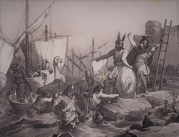 Sisebut (Visigothic king 565-621) landing in Tangier, engraving between 1849 and 1871